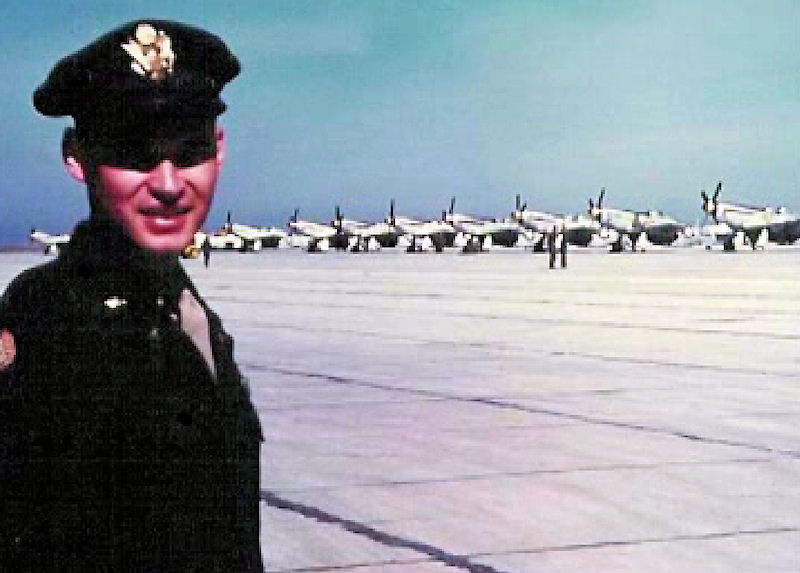 190th Fighter Squadron F-51 Mustangs at Gowen Field, Boise, Idaho, 1948